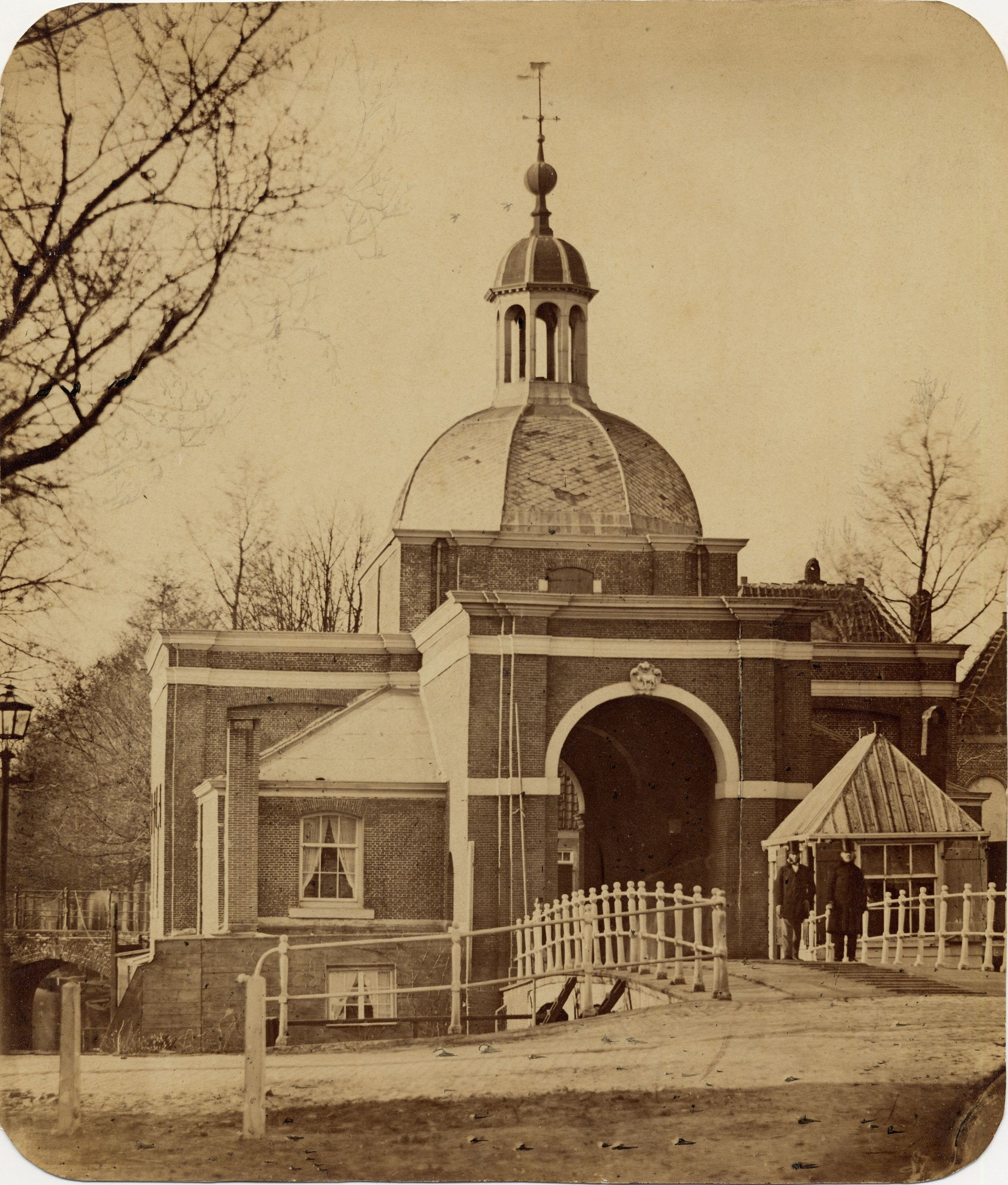 Photograph of the Leiden Koepoort city gate by Jan Goedeljee.